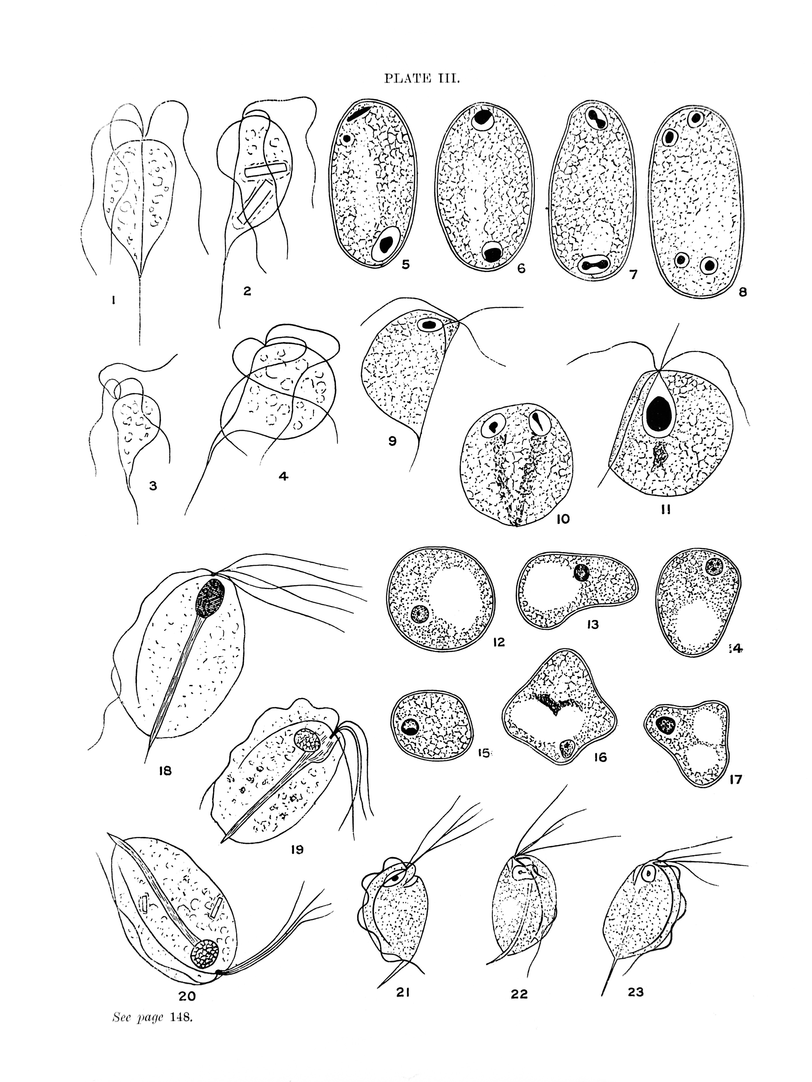 A new intestinal protozoa. Figures 1 to 17 show the stages of the flagellate, Tricercomona intestinalis - renamed Enteromonas hominas. Cyst can be seen in digures 12-17. General Collections Keywords: Tropical Medicine; Parasitology